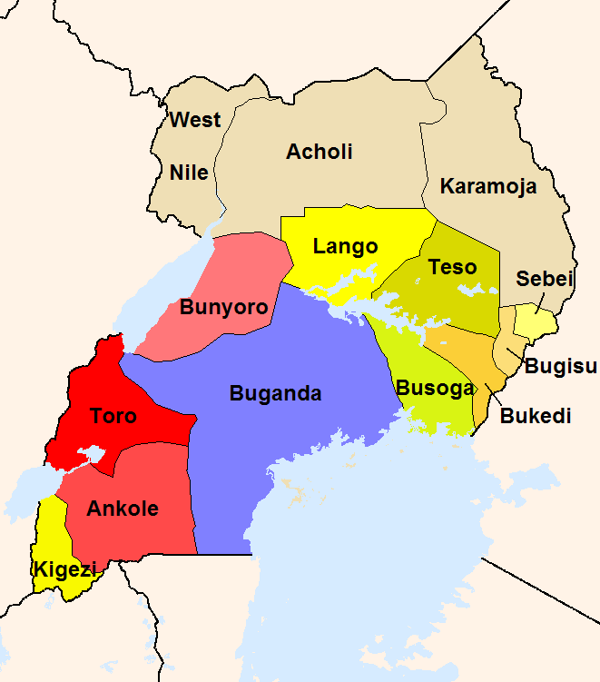 The map shows the British administration units in the Uganda Protectorate (borders of 1926). The reddish areas and the blue Buganda are areas, where traditional kingdoms were maintained. In the yellowish areas Baganda-type administration was introduced. The khaki areas had no sole traditional rule before.